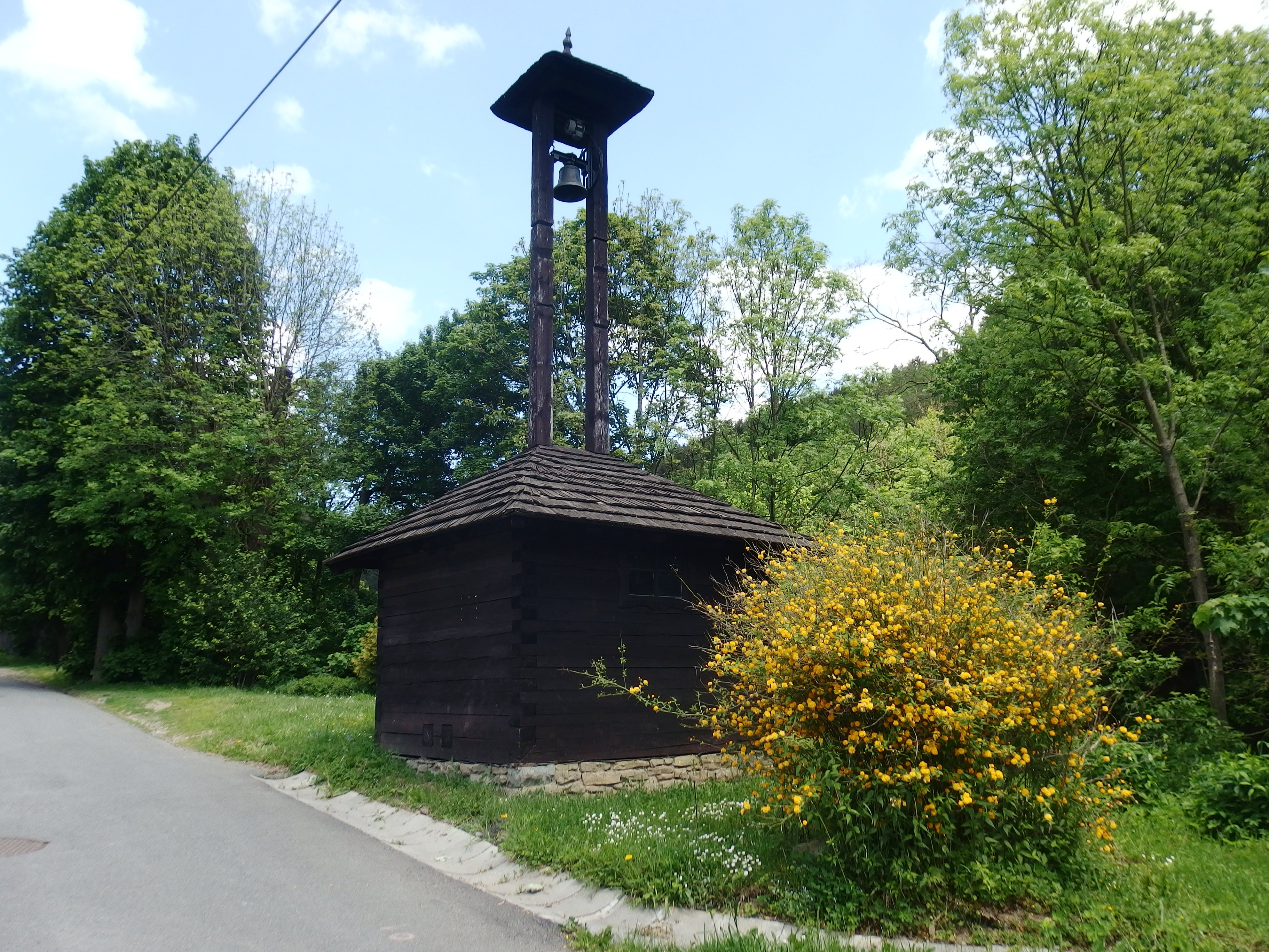 Janová, Vsetín District, Czech Republic.